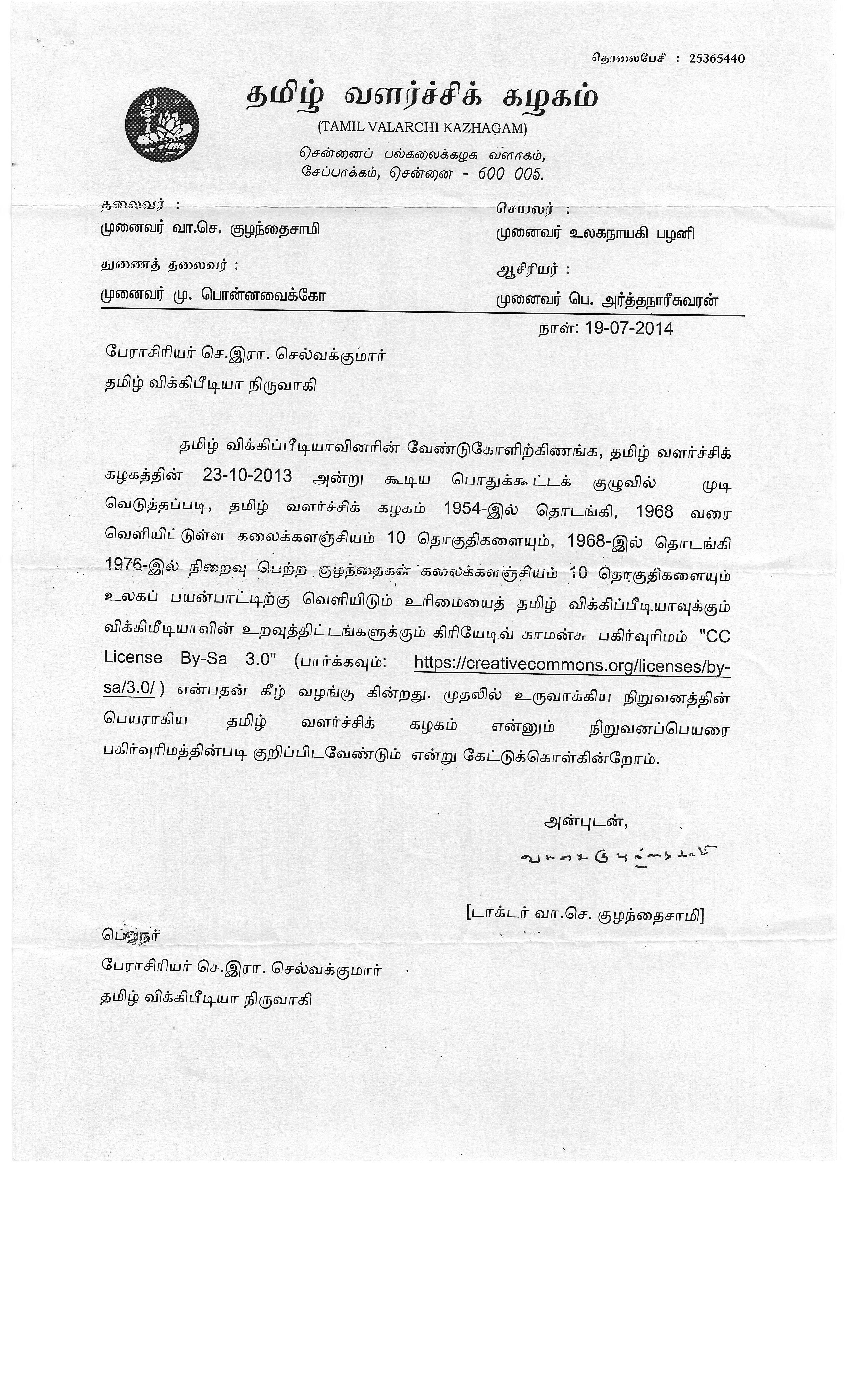 Letter from Tamil Development Board donating 20 volumes of encyclopedia in Tamil under Creative Commons license